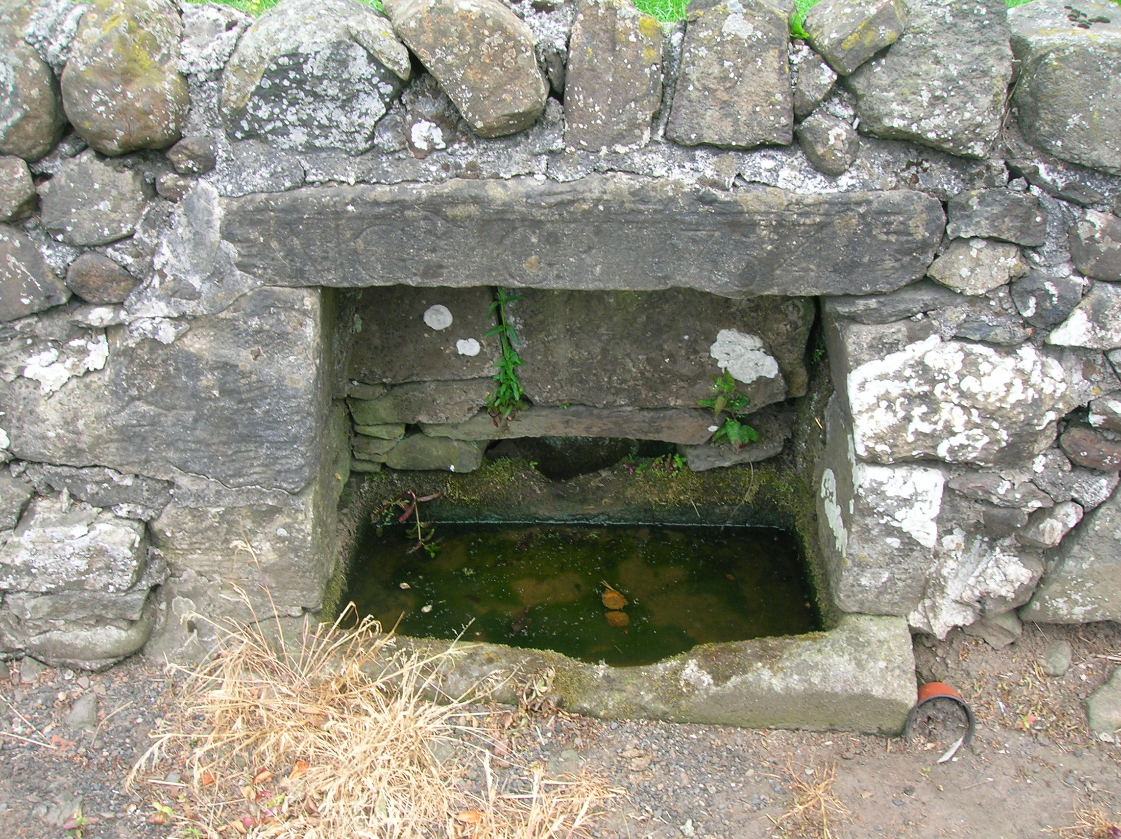 Gibson marriage stone from The Cuff. MG IG 1767. Gateside, Beith, Scotland.